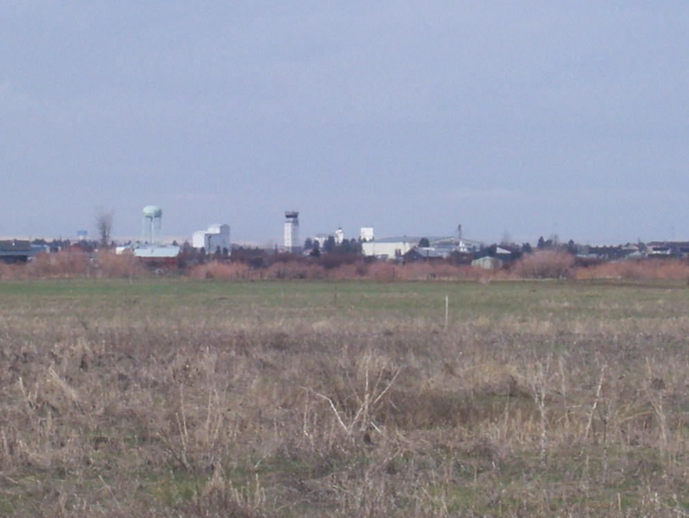 Belgrade, Montana skyline. This photo is a place holder until I can a shot with a better camera and a clearer day where we can see the mountains in the background.